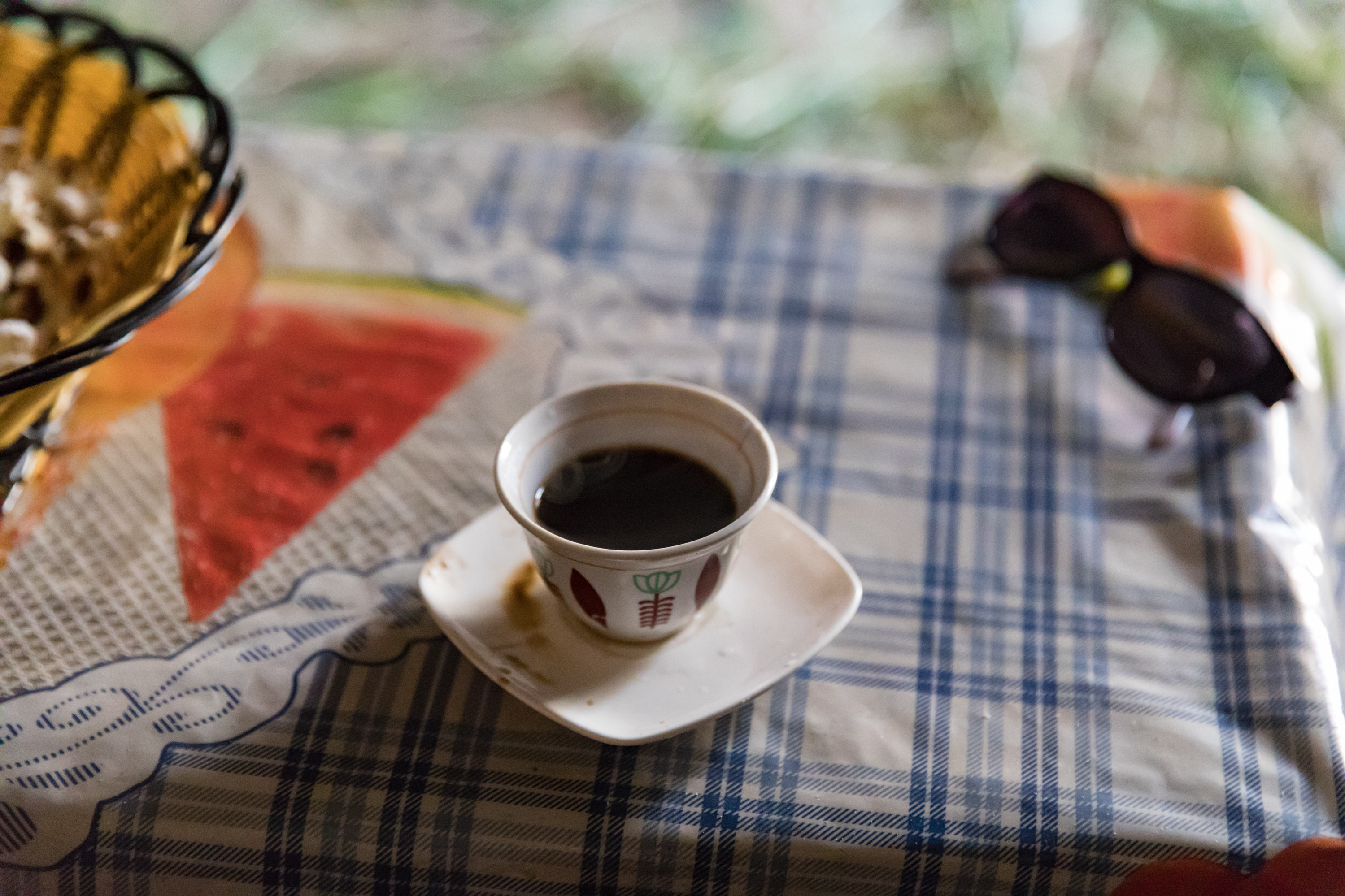 Ethiopia, Oromia Hara Langano, Coffee Ceremony Wikipedia: A coffee ceremony (Amharic: ቡና ማፍላት) is a ritualised form of making and drinking coffee. The coffee ceremony is one of the most recognizable parts of Ethiopian culture and Eritrean culture. Coffee is offered when visiting friends, during festivities, or as a daily staple of life. If coffee is politely declined then most likely tea (shai) will be served.